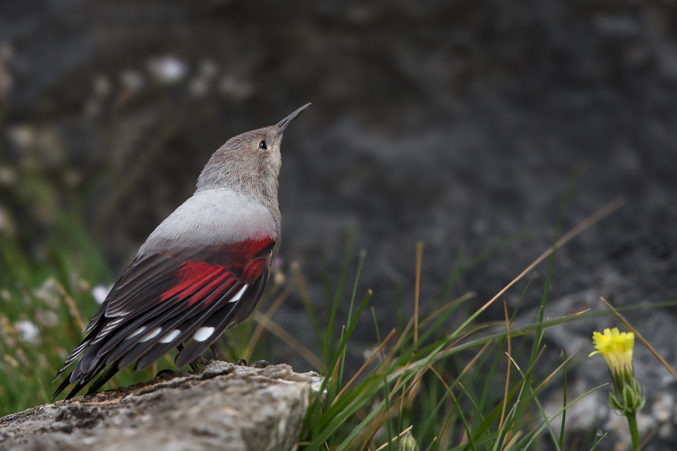 Wallcreeper